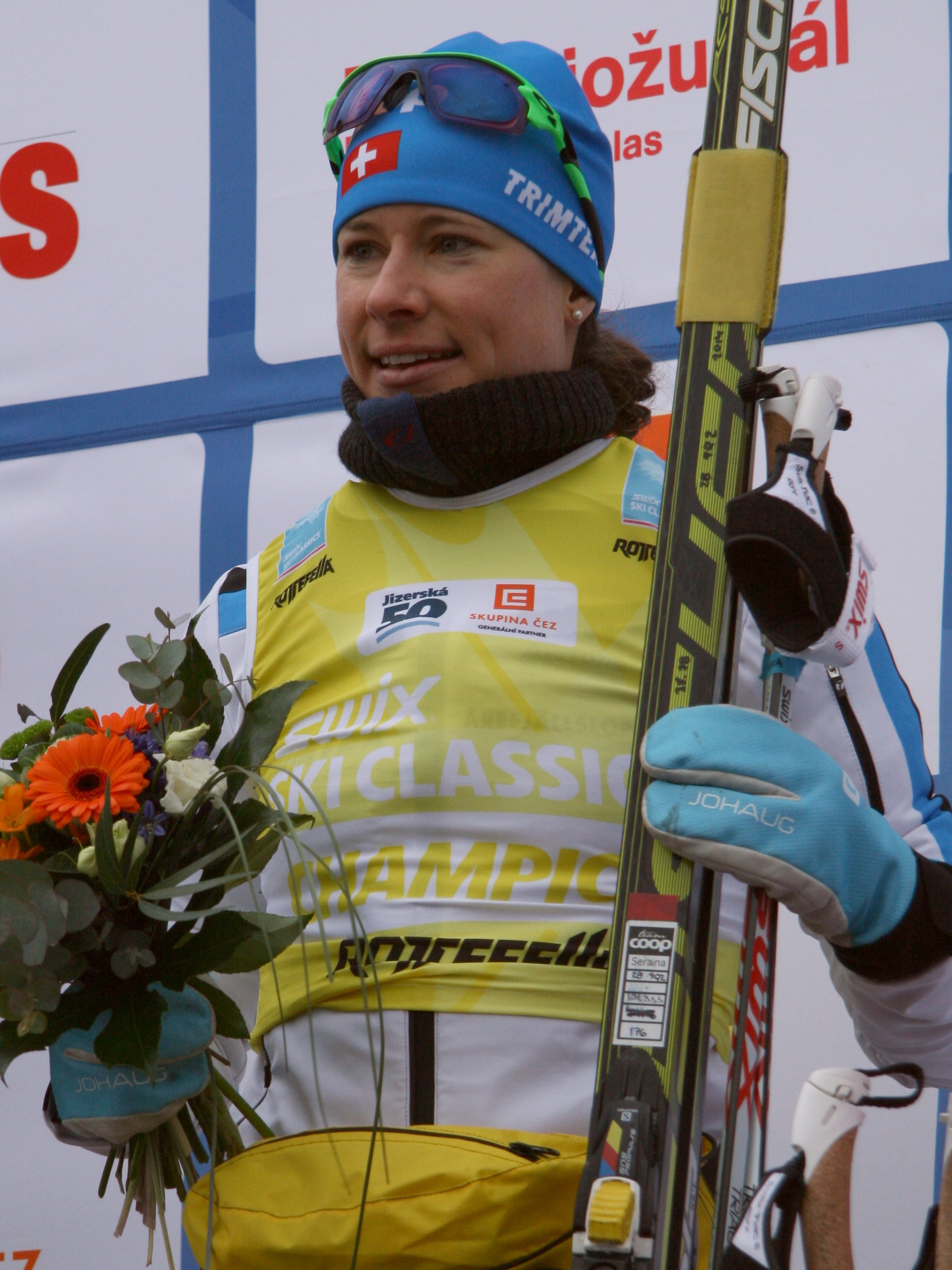 Seraina Boner at the flower ceremony of Jizerská padesátka 2015